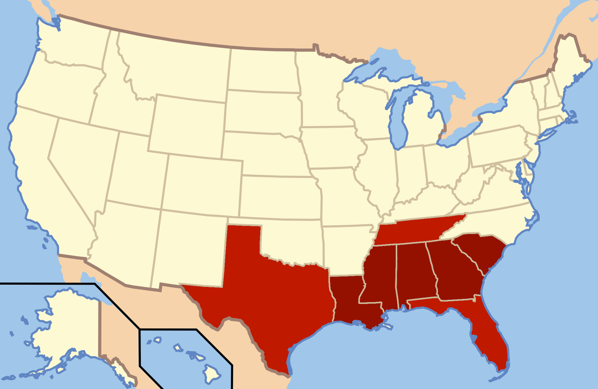 This is an edited map for the geographical region of the Deep South in the USA. This map includes Tennessee, as West Tennessee is historically considered part of the Deep South, just as North Florida and regions of Texas.